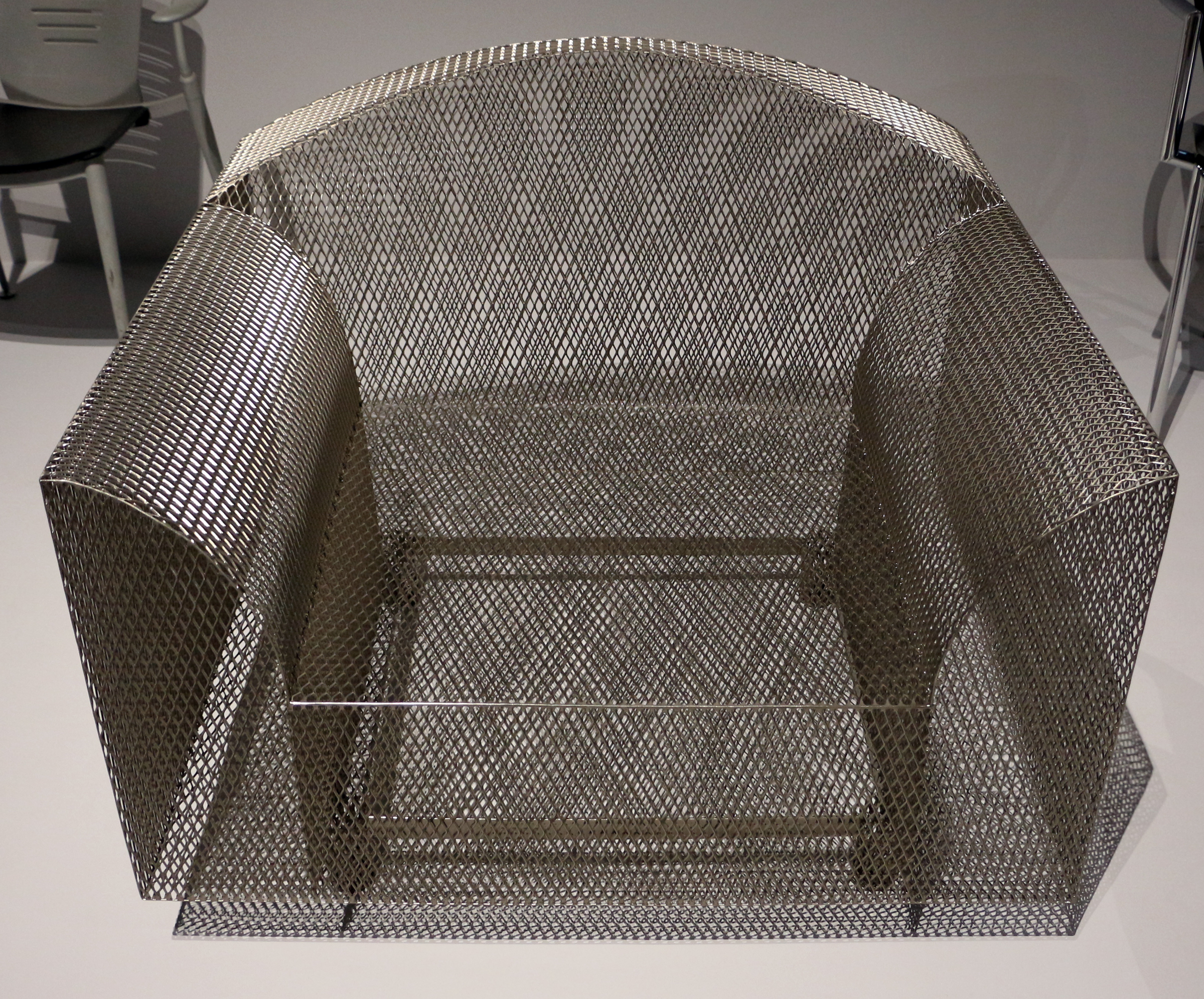 Decorative arts in the Musée national d'art moderne